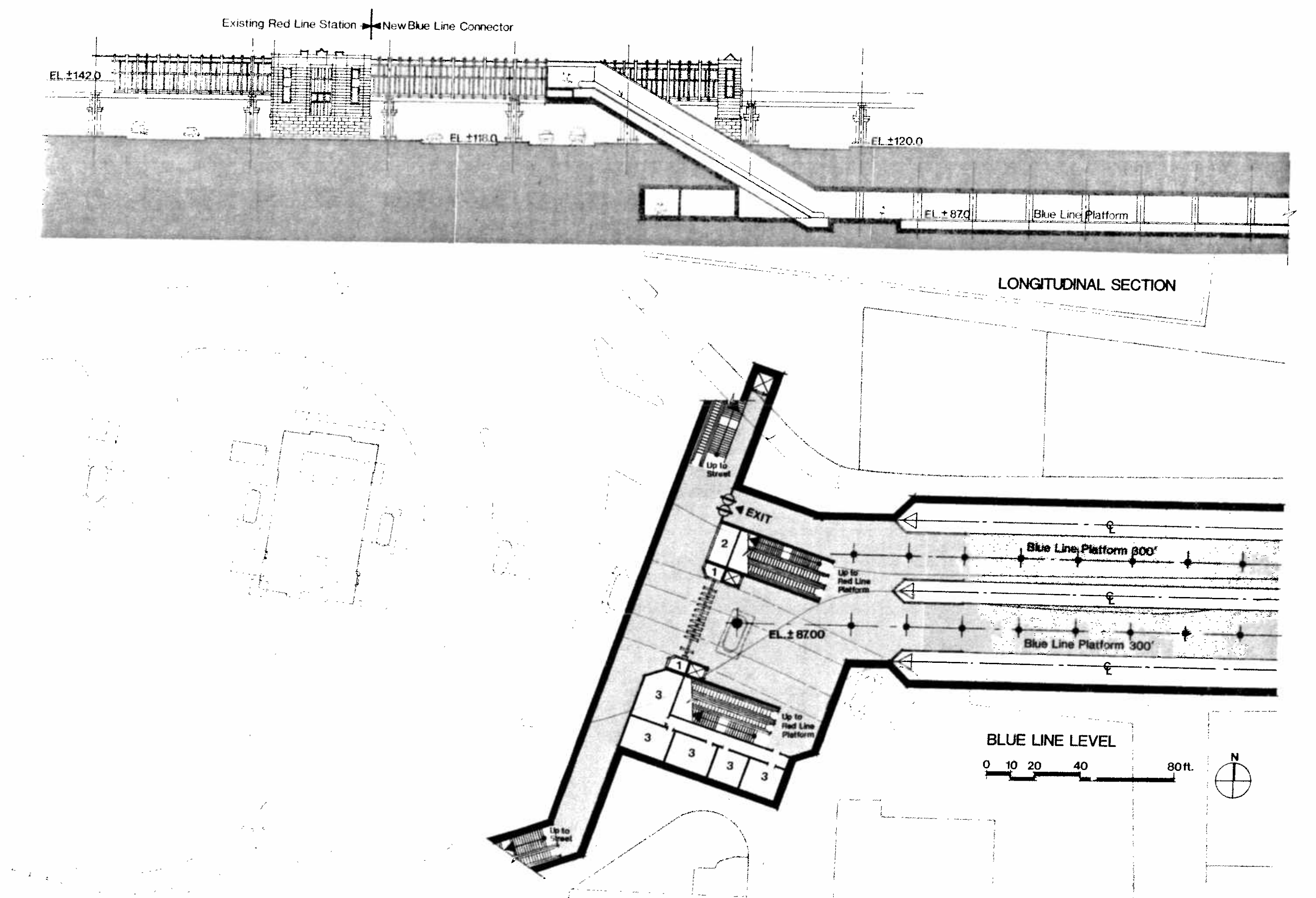 A 1986 plan of Scheme 1 (of 3 schemes) for the Blue Line level at Charles/MGH station